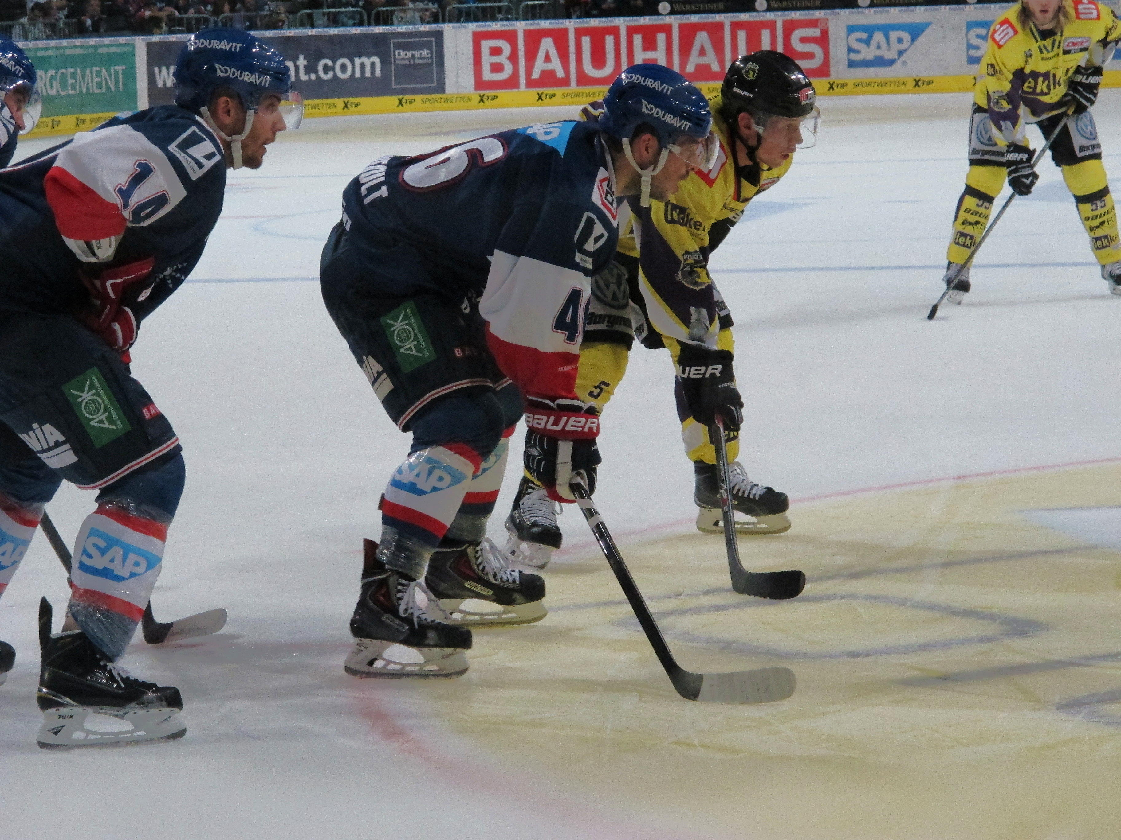 right: Jon Rheault, ice hockey player from Texas, forward, Adler Mannheim left: Steve Wagner, ice hockey player from Minnesota, defender, Adler Mannheim